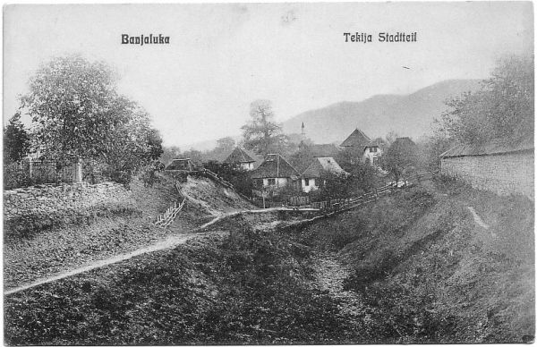 Tekija (Banja Luka)